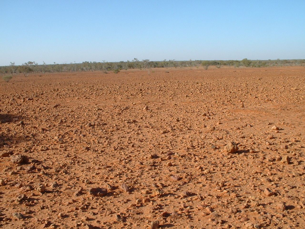 Gibber (small stones) plains at Sturt National Park, New South Wales. The gibber plains were very difficult for the early explorers to cross.